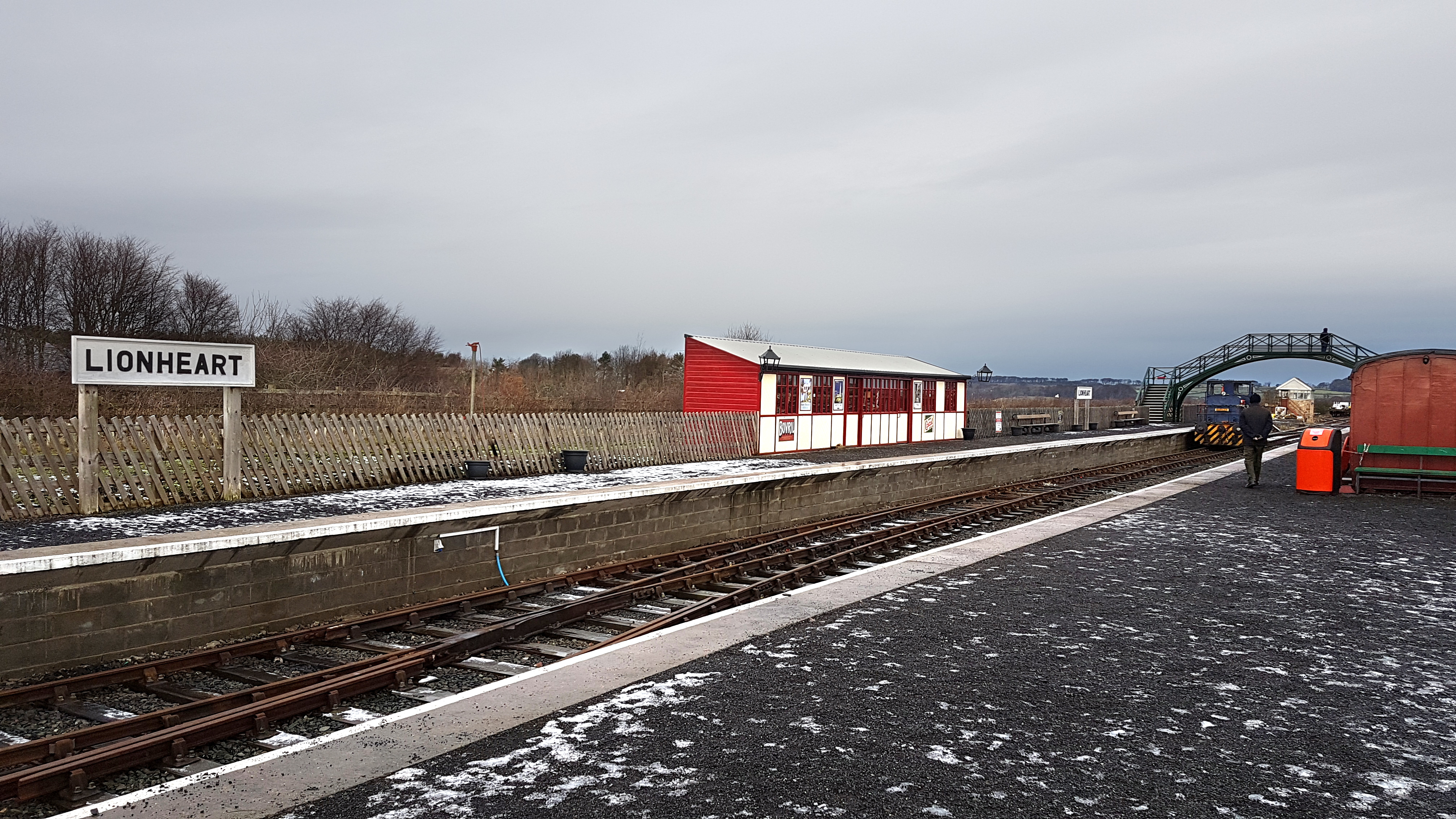 View NW across platform 1 of the Aln Valley Railway's Lionheart Station towards platform 2 on 20 December 2017. Ex-NCB Andrew Barclay 615 can be seen in the background as well as the footbridge and Lionheart Signal Box.